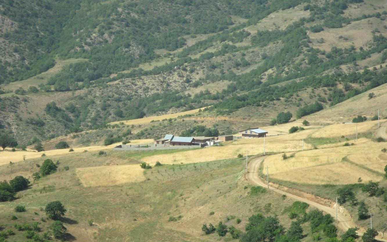 Ravanbaksh Leysi has taken this photo near Setan village.